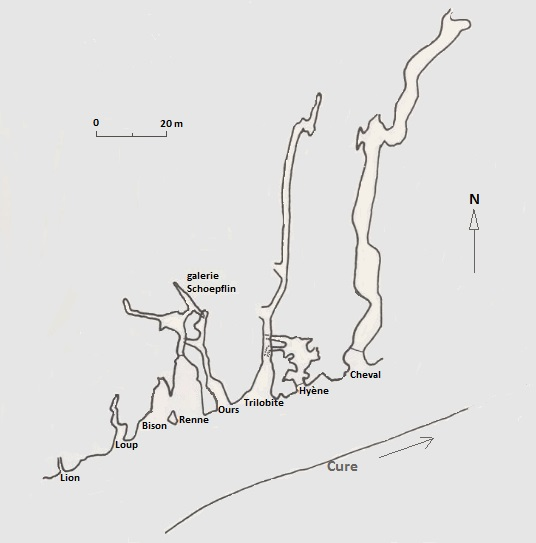 Arcy-sur-Cure, Yonne, Burgundy, France. Map of the 8 caves that stand within 70 m : Lion, Loup (Wolf), Bison, Renne, Ours (Bear), Trilobite, Hyène, Cheval (Horse).